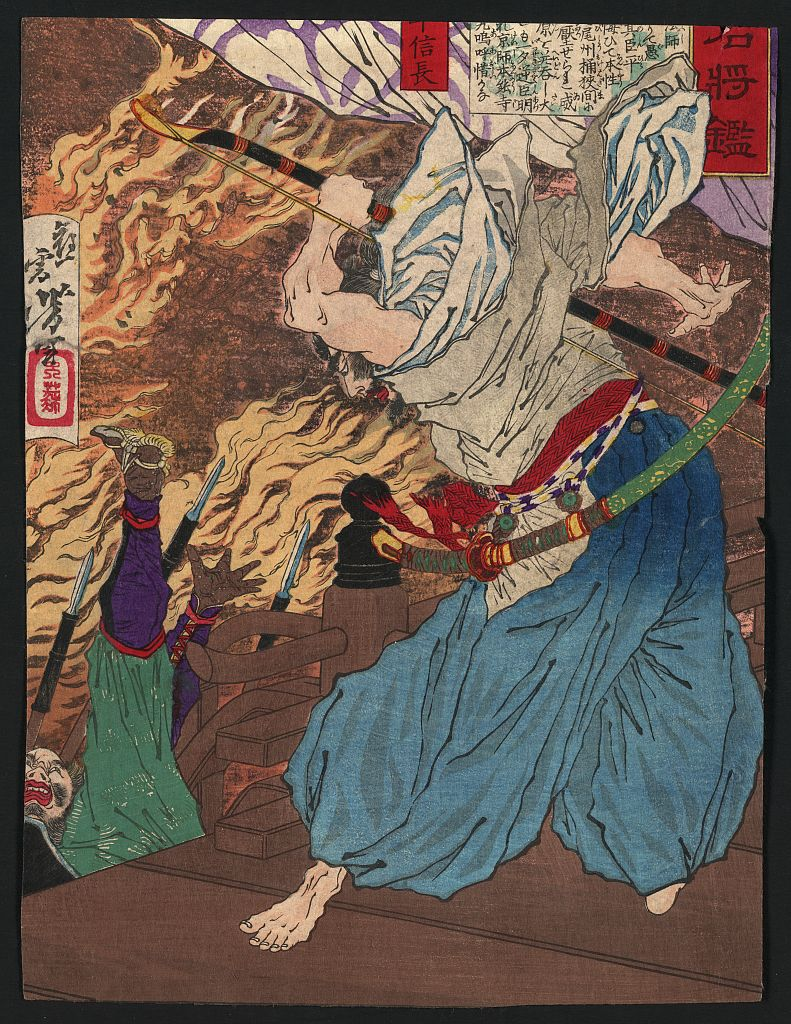 Oda Nobunaga fighting with another warrior whom he knocks off a building into a raging inferno.